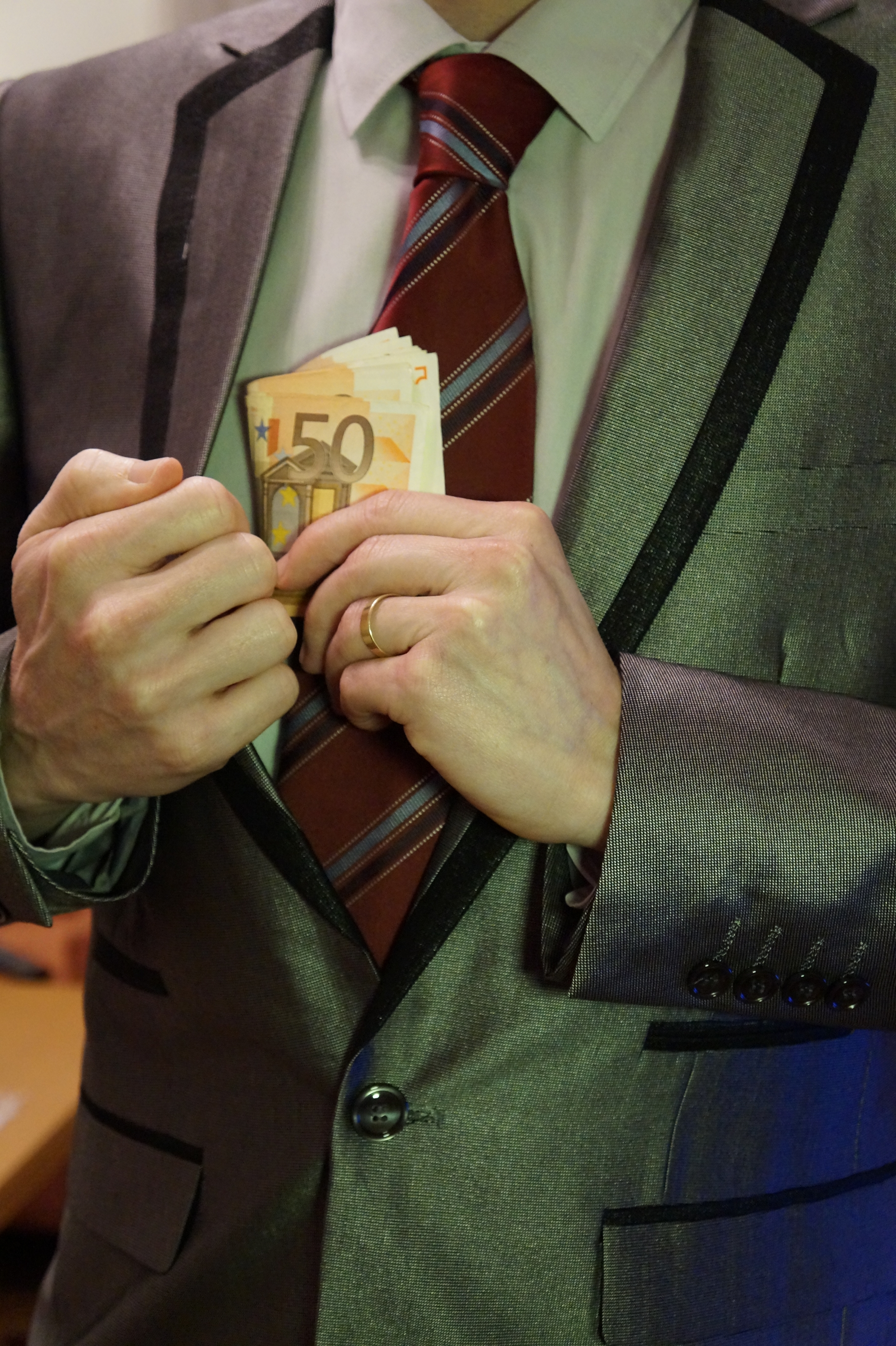 Corrupt man in a suit putting euro banknotes into his pocket. This photo has been released into the public domain. There are no copyrights: you can use and modify this photo without asking, and without attribution.